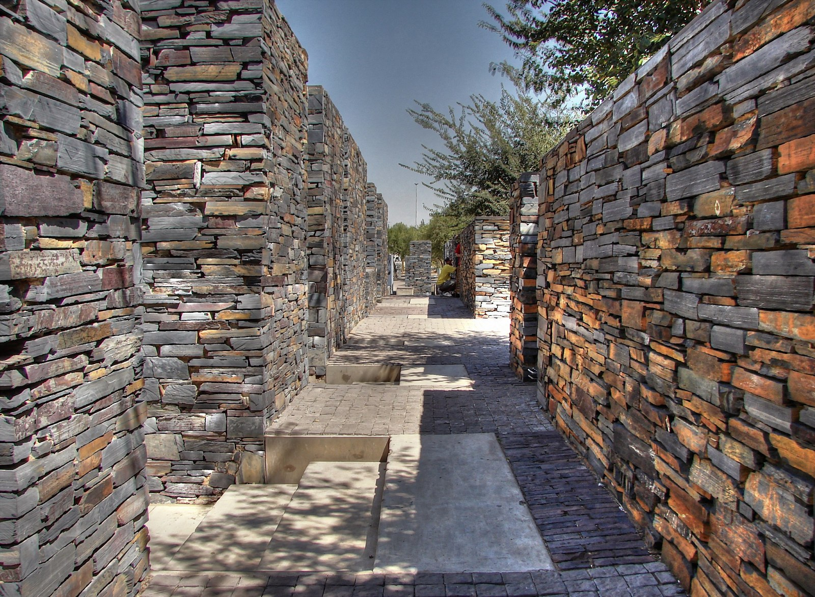 Hector Pieterson museum